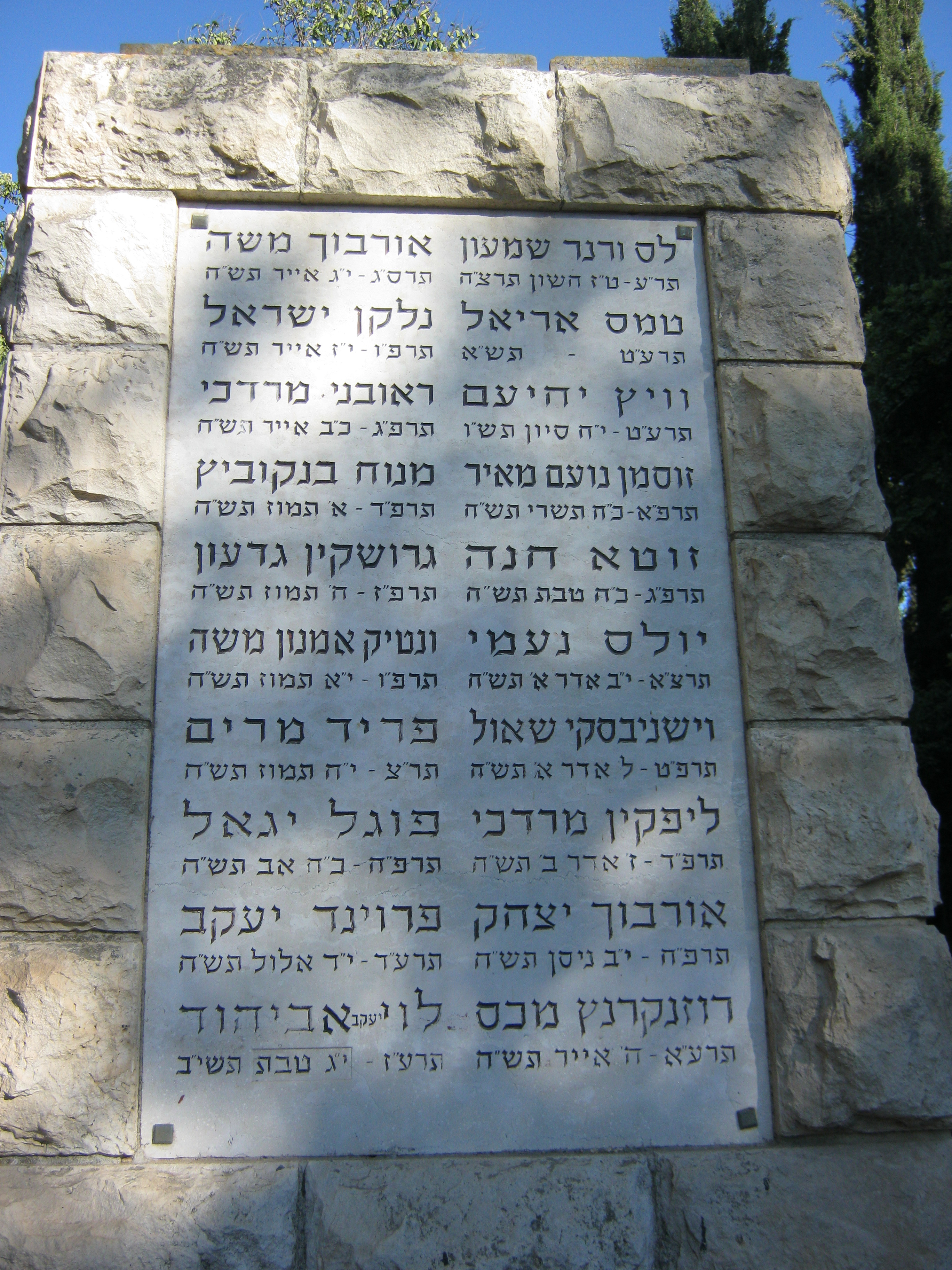 Memorial to the residents of the Beit Hakerem neighborhood in Jerusalem, who died in the War of Independence.